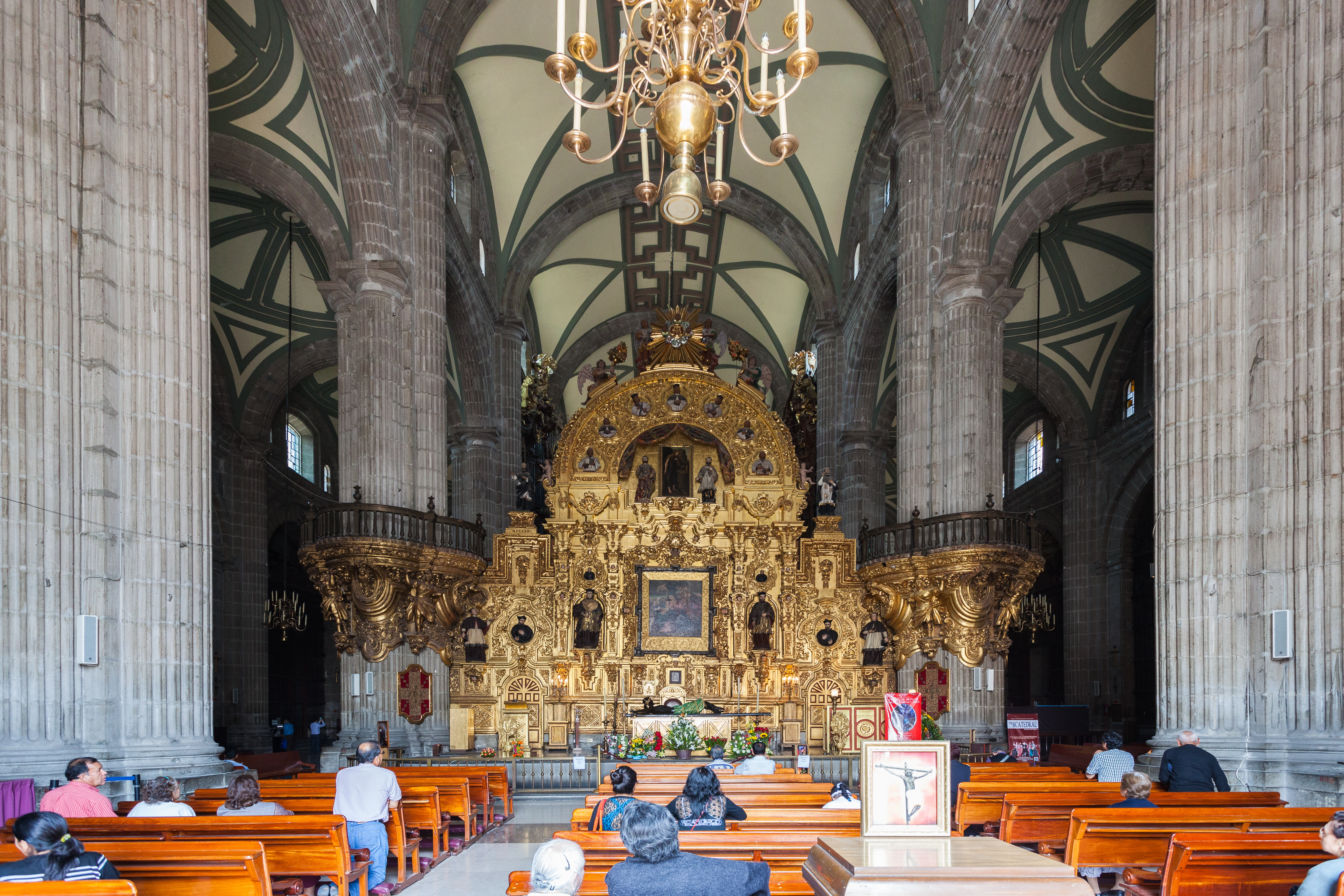 Metropolitan Cathedral, Mexico City, México